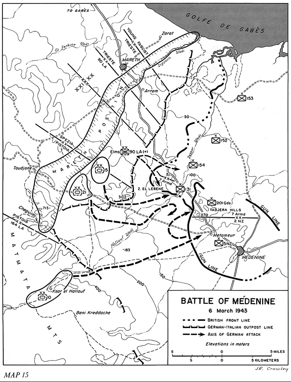 Map showing the Battle of Médenine, 6 March 1943.